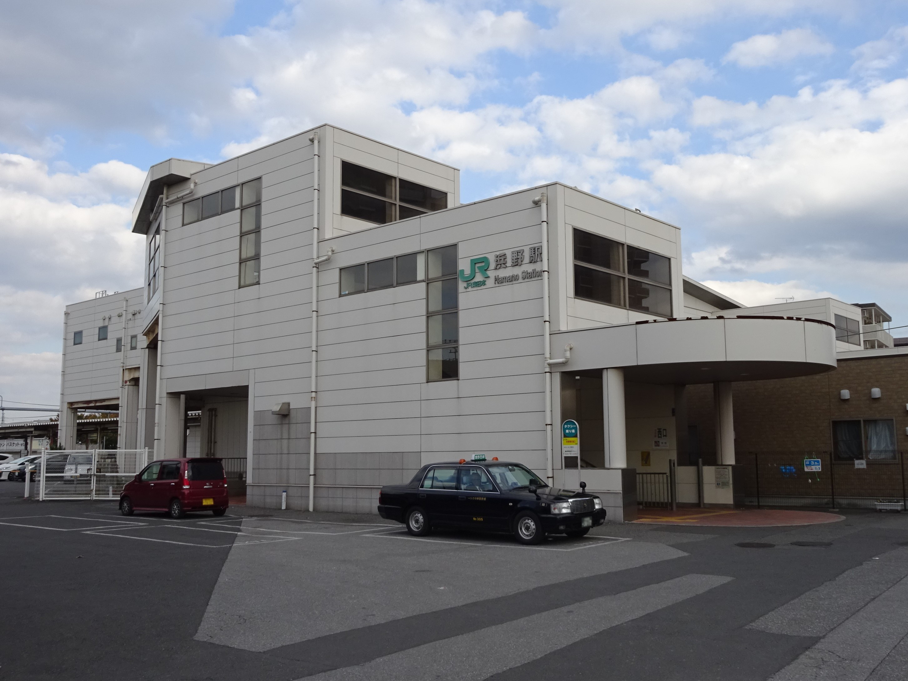 Ticket barriers of Hamano Station